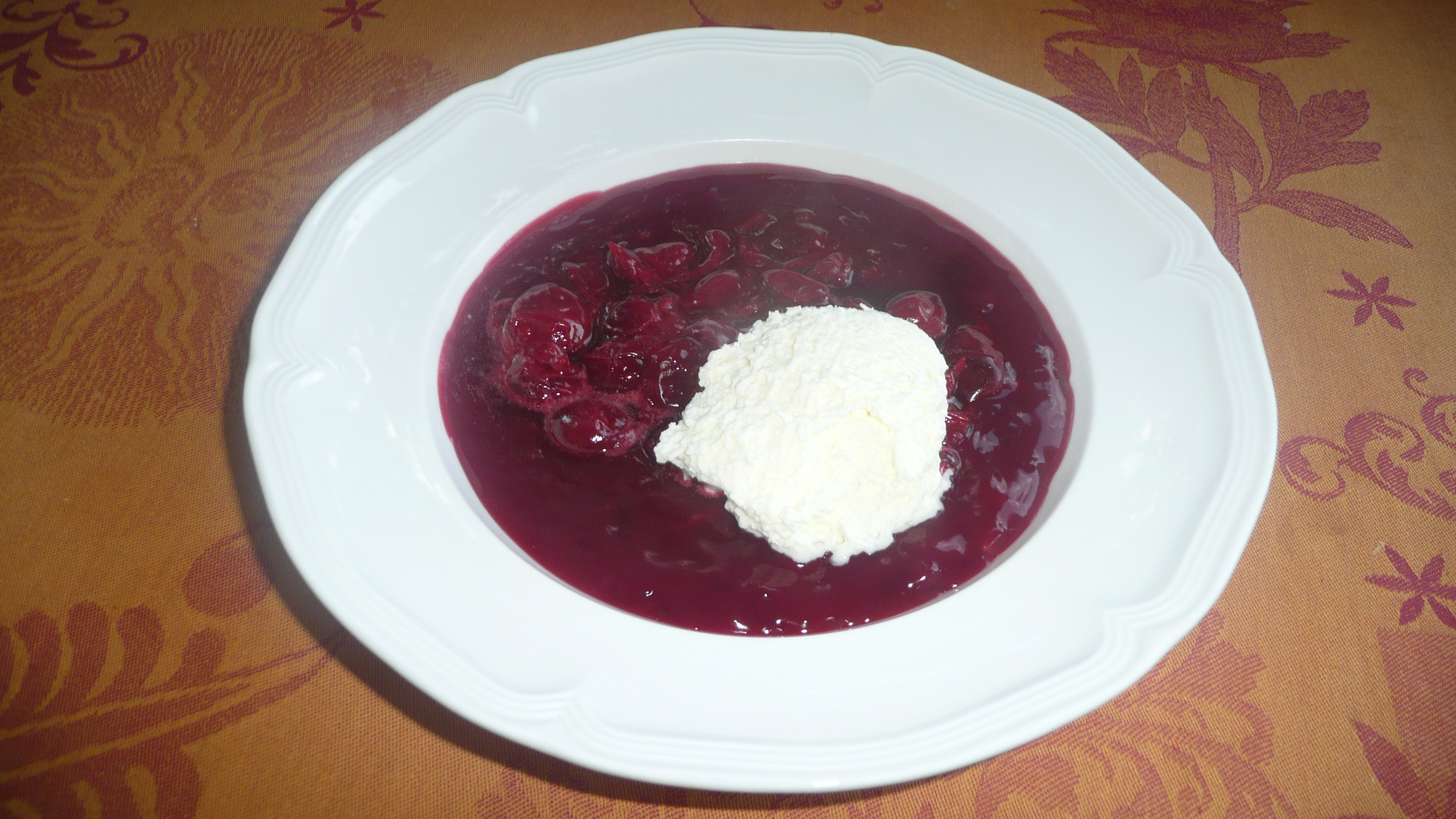 Sour cherry soup, Wendenschloss, Berlin